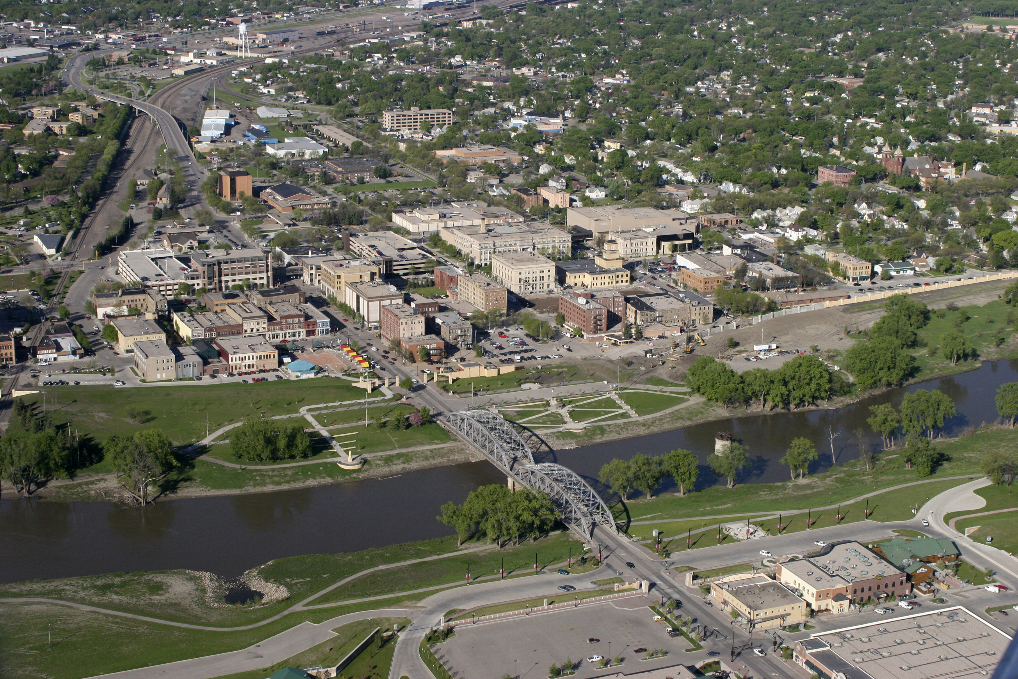 Grand Forks, ND, May 17, 2006 -- Aerial view of Grand Forks mitigation project building new levee walls, burns and pumping stations protecting the city from the Red River. Photo by Brenda Riskey/UND